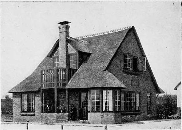 J.J.P. Oud (architect). Country cottage Essen-Vinckers, Blaricum, the Netherlands. 1915-1916. From Bouwkundig Weekbladm vol 37, nr. 2 (13 May 1916): p. 24.